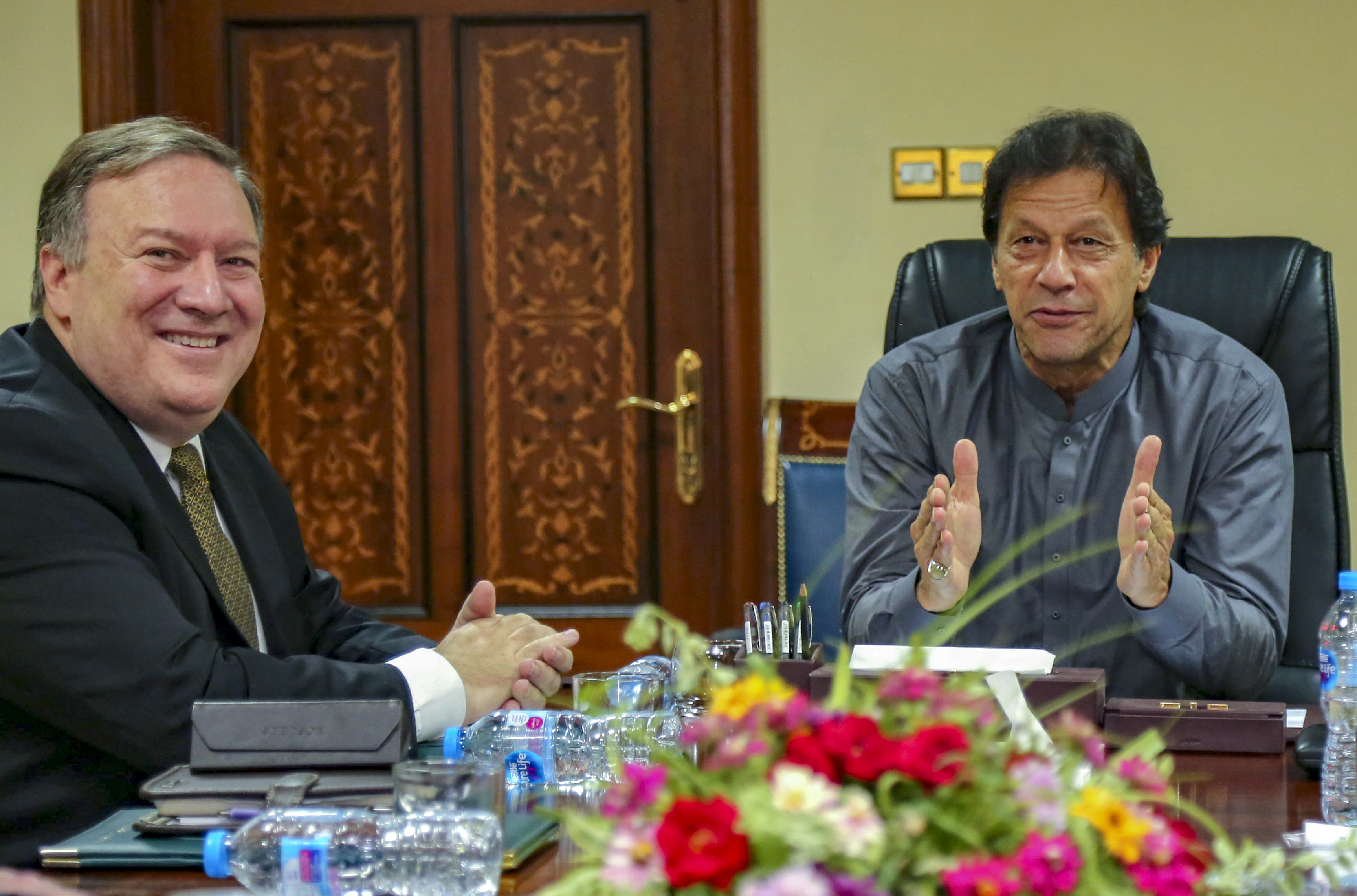 U.S. Secretary of State Michael R. Pompeo participates in a meeting with Pakistan Prime Minister Imran Khan in Islamabad, Pakistan.